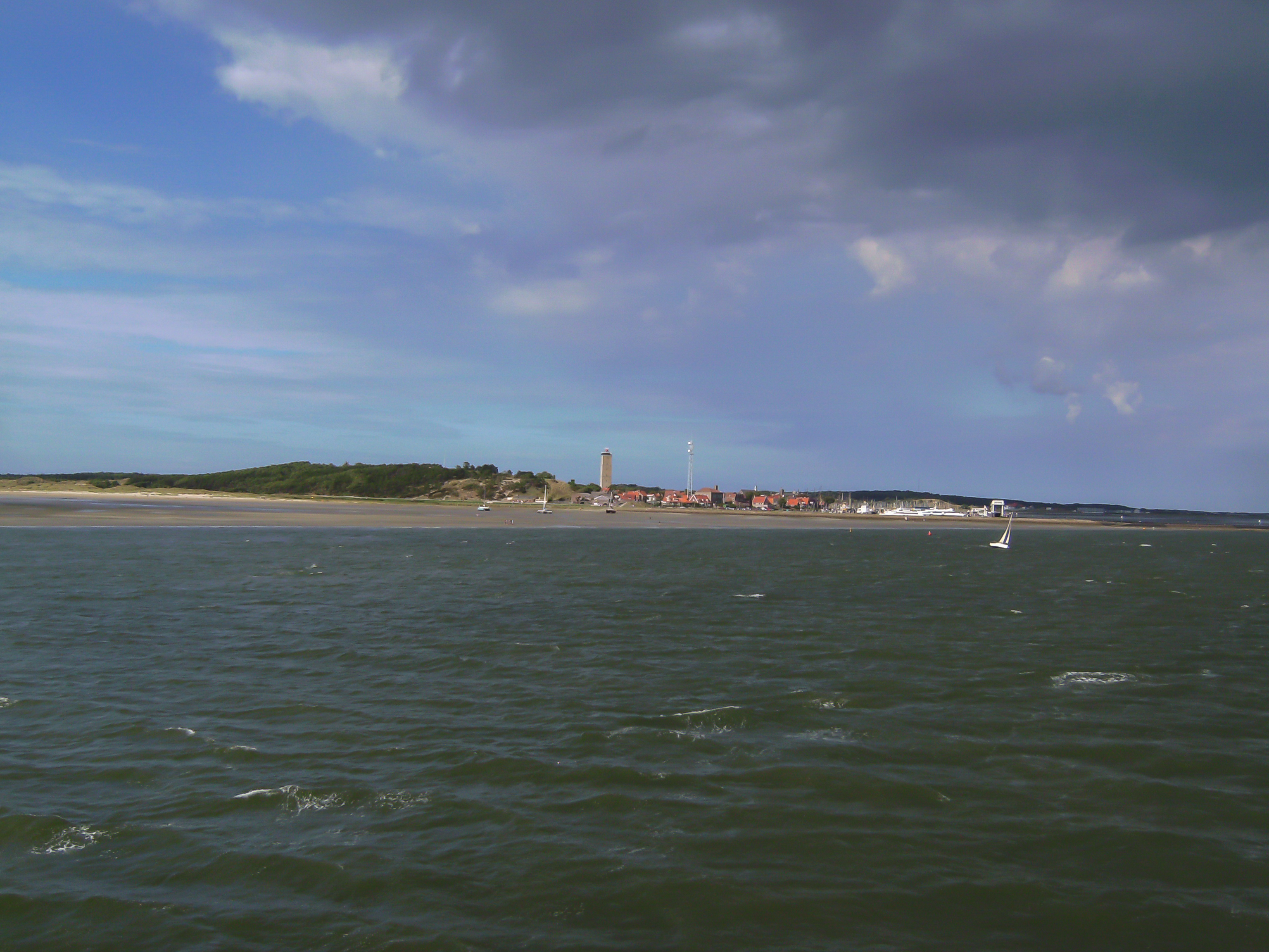 West-Terschelling, view to the village vrom the ferry